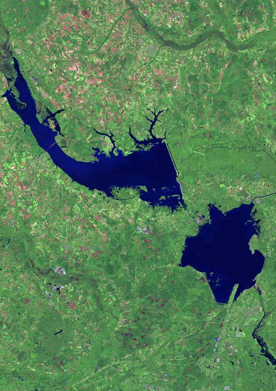 The raw satellite imagery shown in these images was obtain from NASA and/or the US Geological Survey. Post-processing and production by